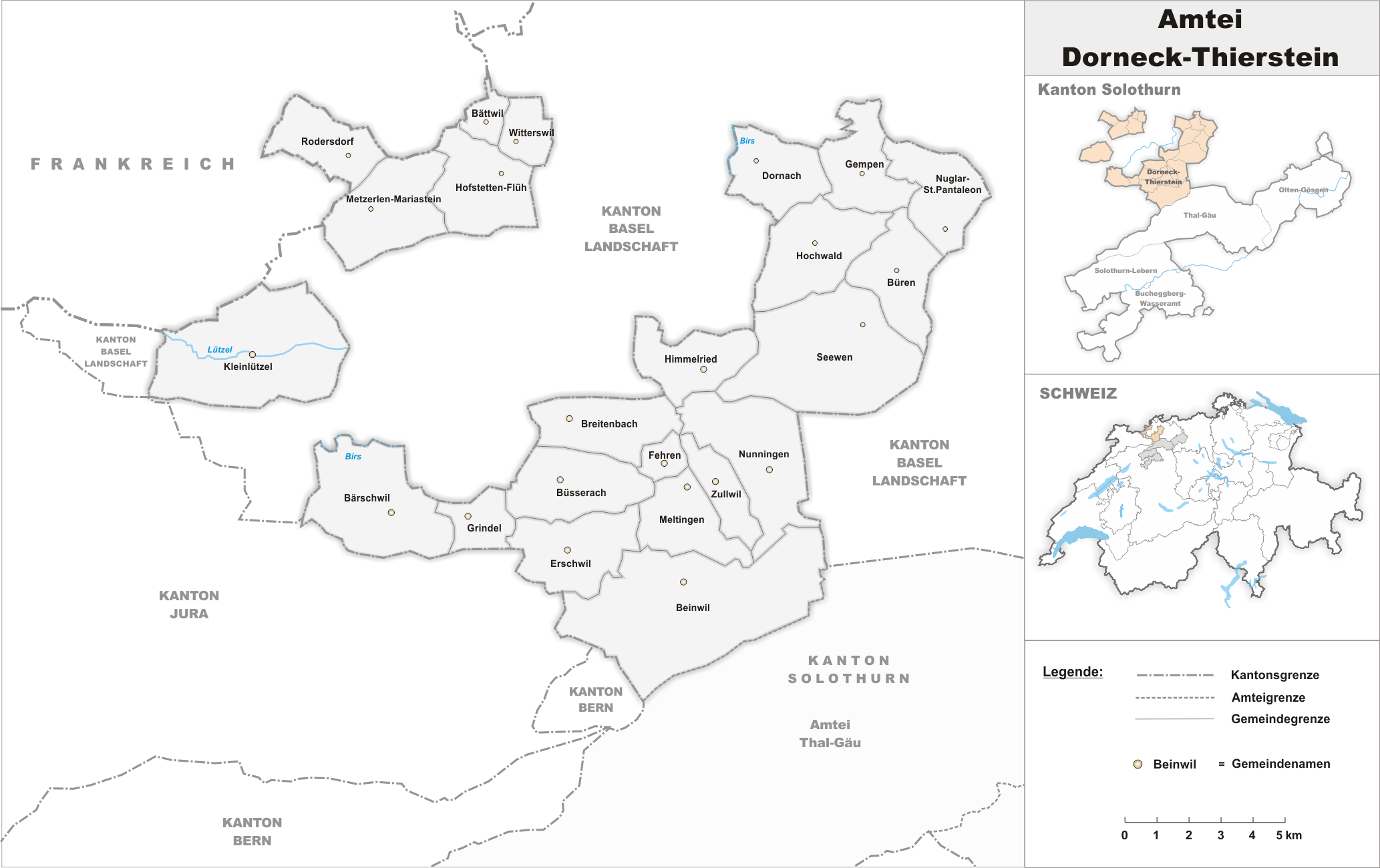 Municipality in the Amtei of Dorneck-Thierstein